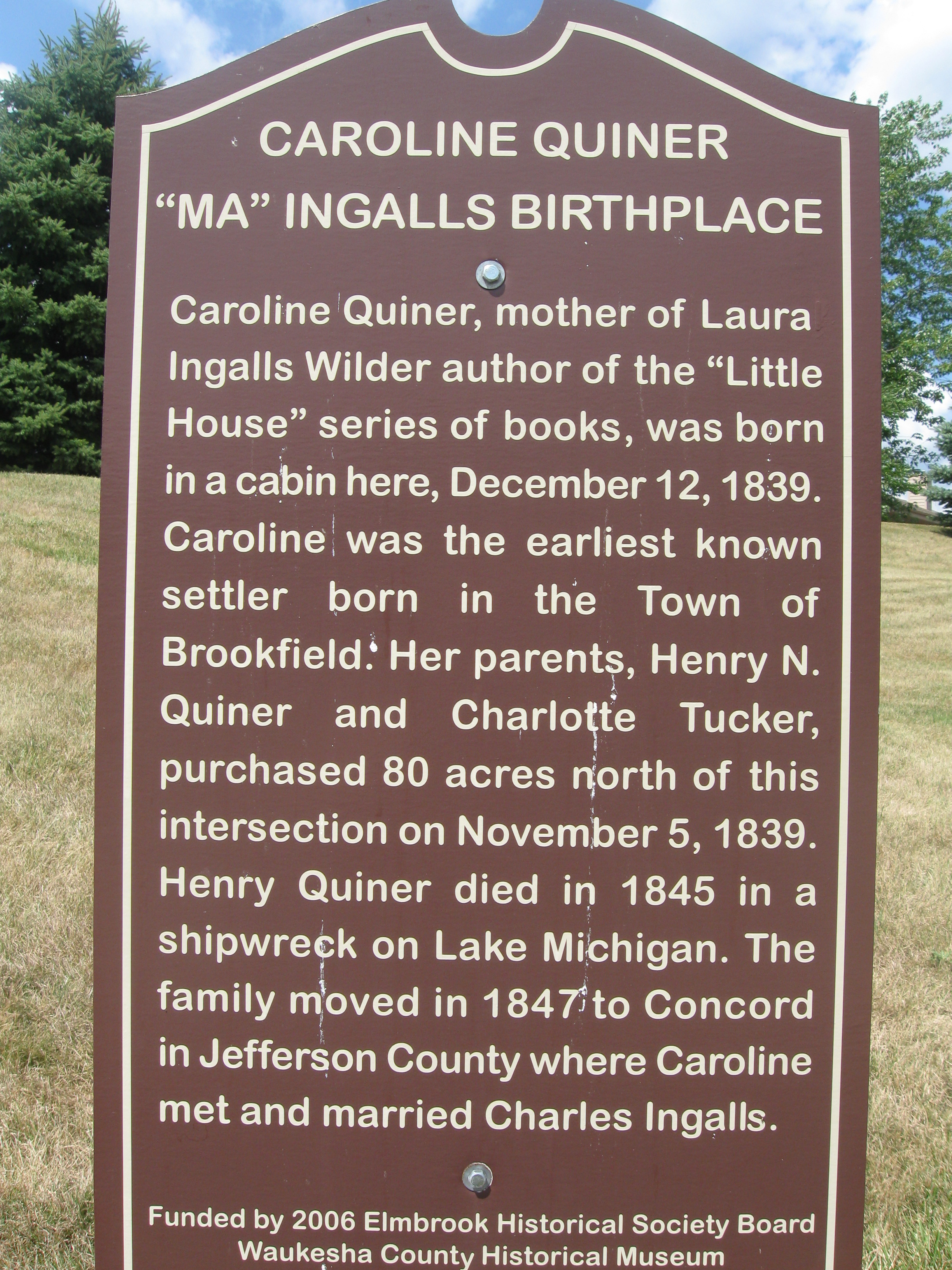 Historical Marker noting birthplace of Caroline Quiner "Ma" Ingalls, mother of author Laura Ingalls Wilder. This stands in Brookfield, Wisconsin, just NW of the intersection of Brookfield and Davidson Roads. This view is looking approximately due north.